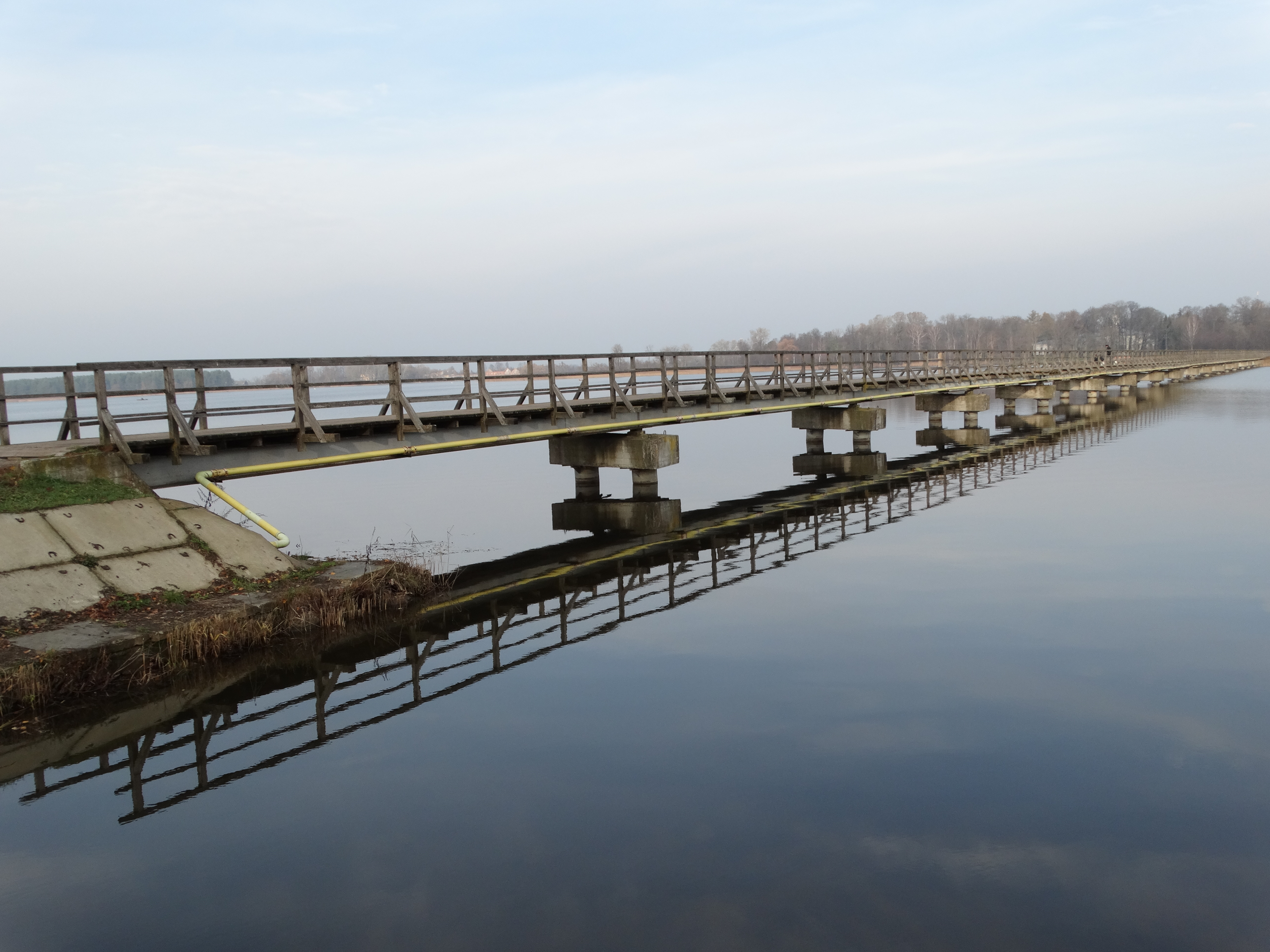 Širvėna Lake footbridge, Biržai, Lithuania